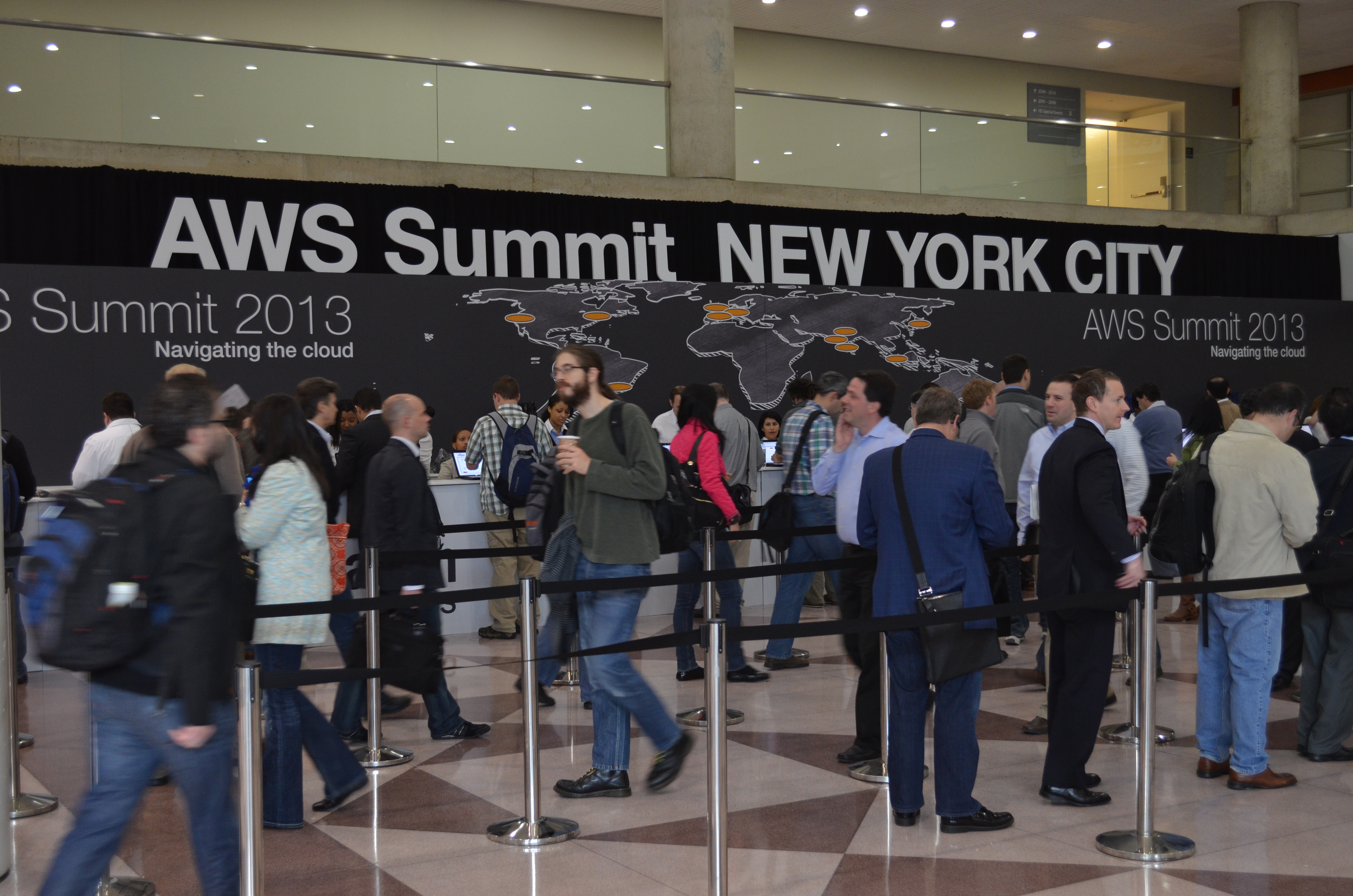 AWS Summit 2013 NYC Javits Convention Center